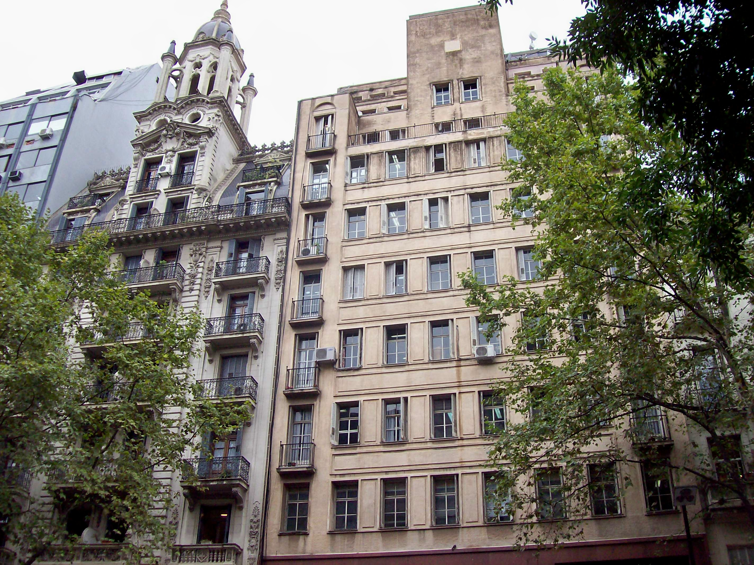 Office building on Avenida de Mayo 869, in downtown Buenos Aires. Designed by German architect Hans Hertlein and completed in 1935, it currently headquarters the state agency ANMAT (the Argentine counterpart of the F.D.A.).